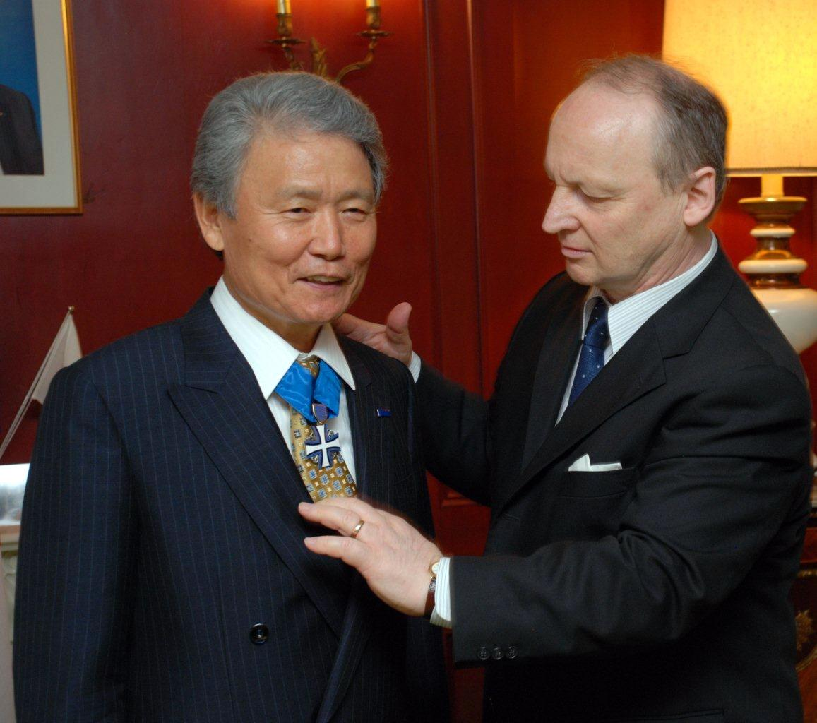 Toivo Tasa, Ambassador to Japan, conducted an investiture ceremony for Sadayuki Sakakibara, Chairman of the Toray Industries, Inc., at the Embassy of Estonia in Tokyo on June 25, 2012. Sakakibara was given the 3rd Class of the Order of the Cross of Terra Mariana from Tasa.